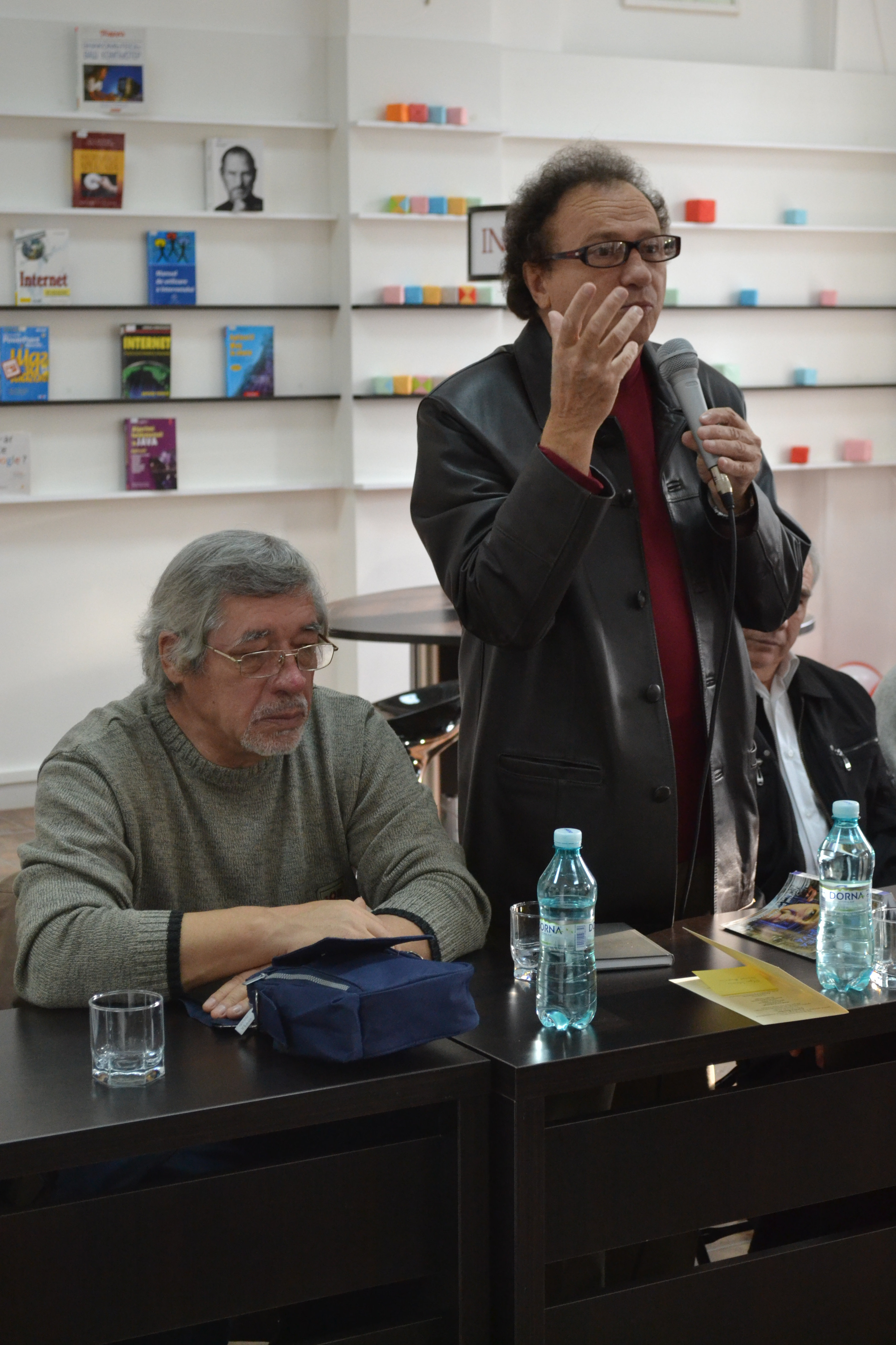 Leo Butnaru (left) and Arcadie Suceveanu